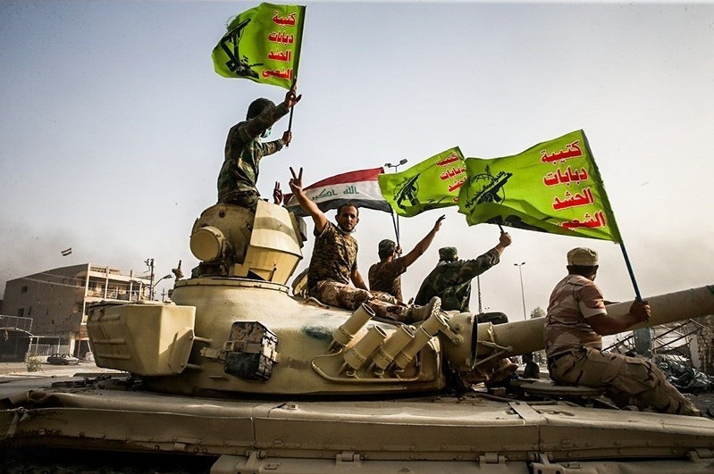 Liberation of Fallujah by Iraqi Armed Forces and The People's Mobilization (Shi'a militias)